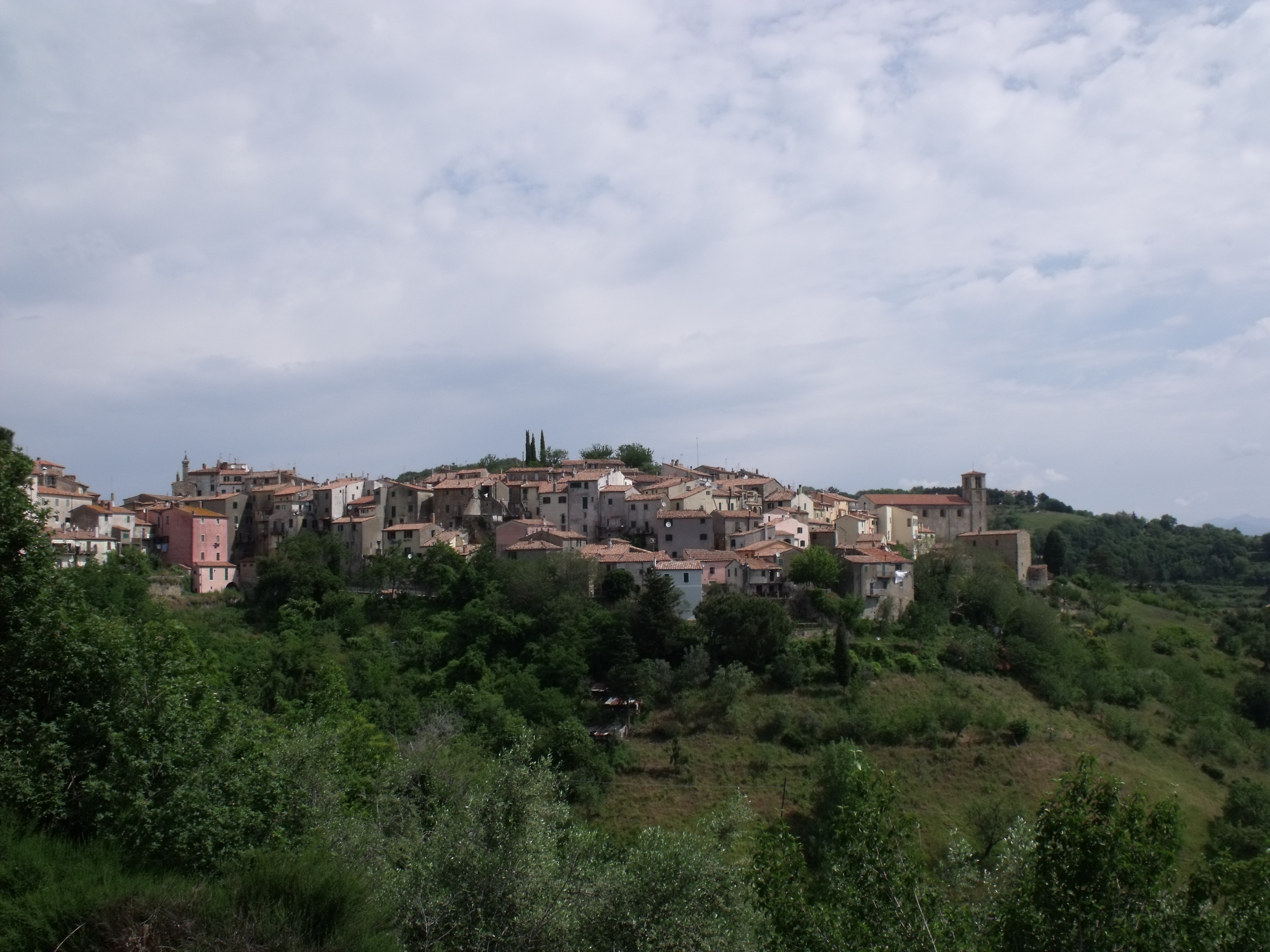 Panorama of Scansano, Province of Grosseto, Tuscany, Italy